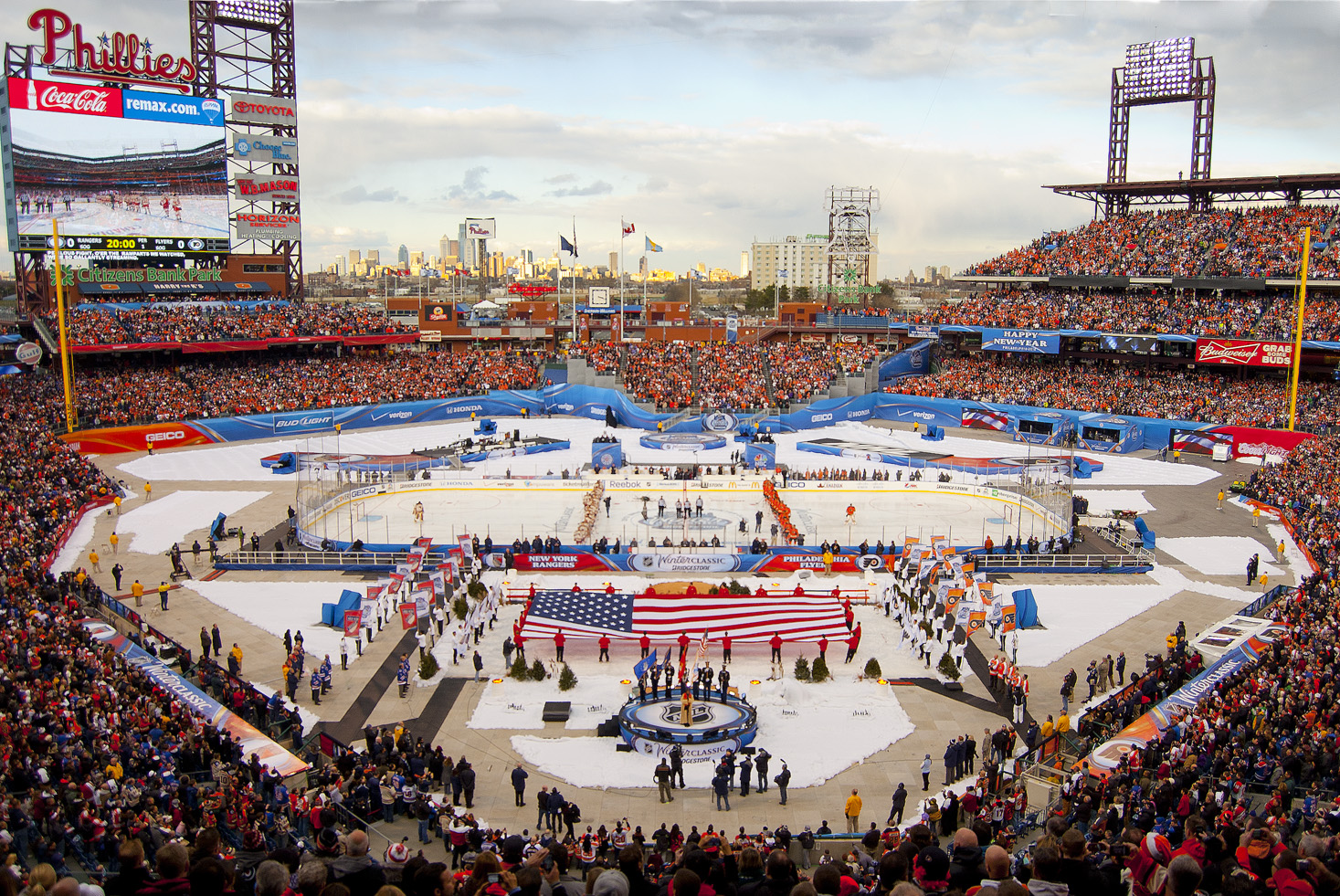 The 2012 NHL Winter Classic at Citizens Bank Park, Philadelphia, PA, between the New York Rangers and Philadelphia Flyers, January 2, 2012. (Photograph by uploader)